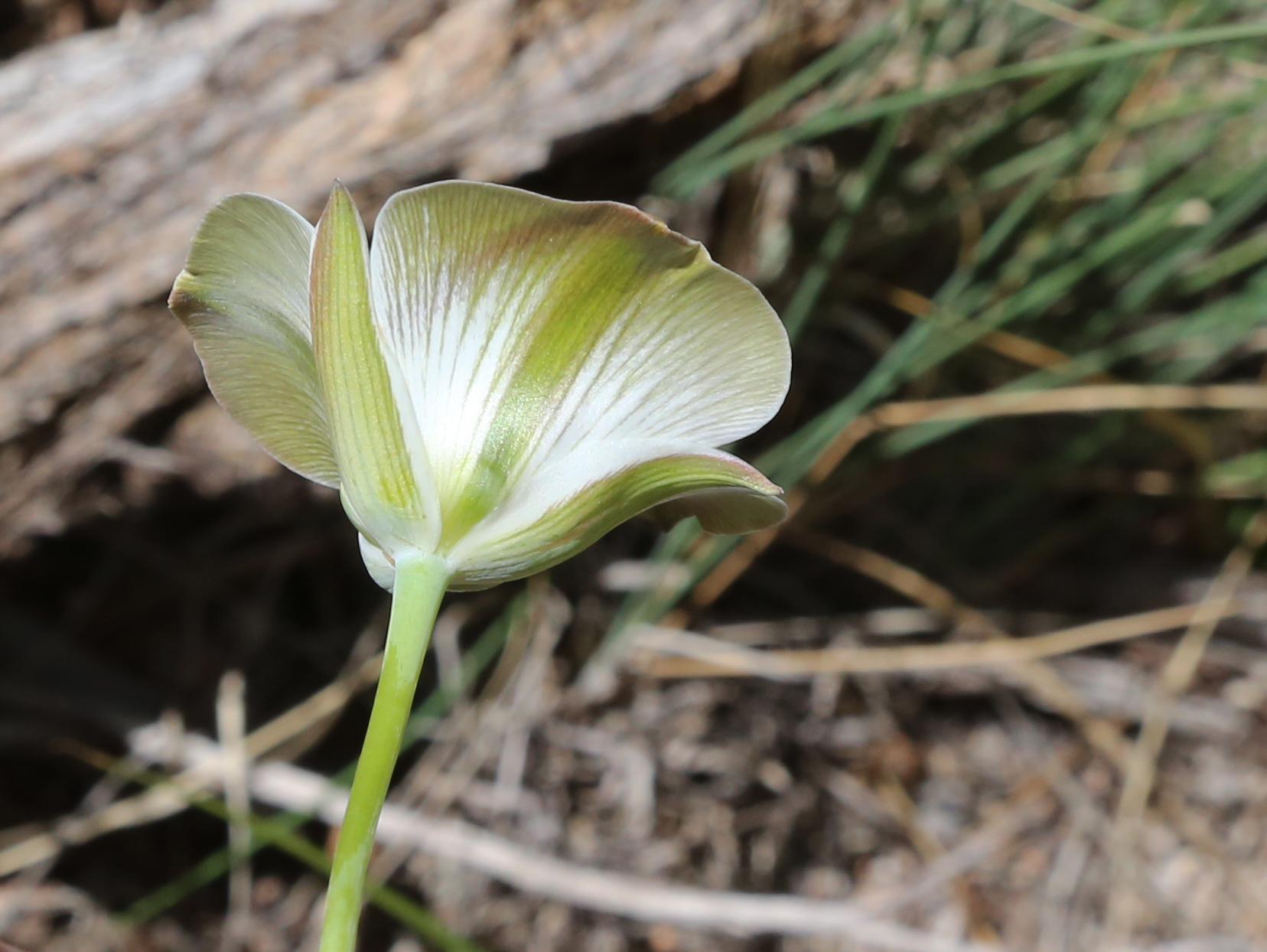 Green-striped mariposa lily (Calochortus bruneaunis) flower from underside, showing green sepals and green stripe on back of petals. Near outlet stream from North Lake, at 9300|ft|abbr=on in Inyo County California, USA.